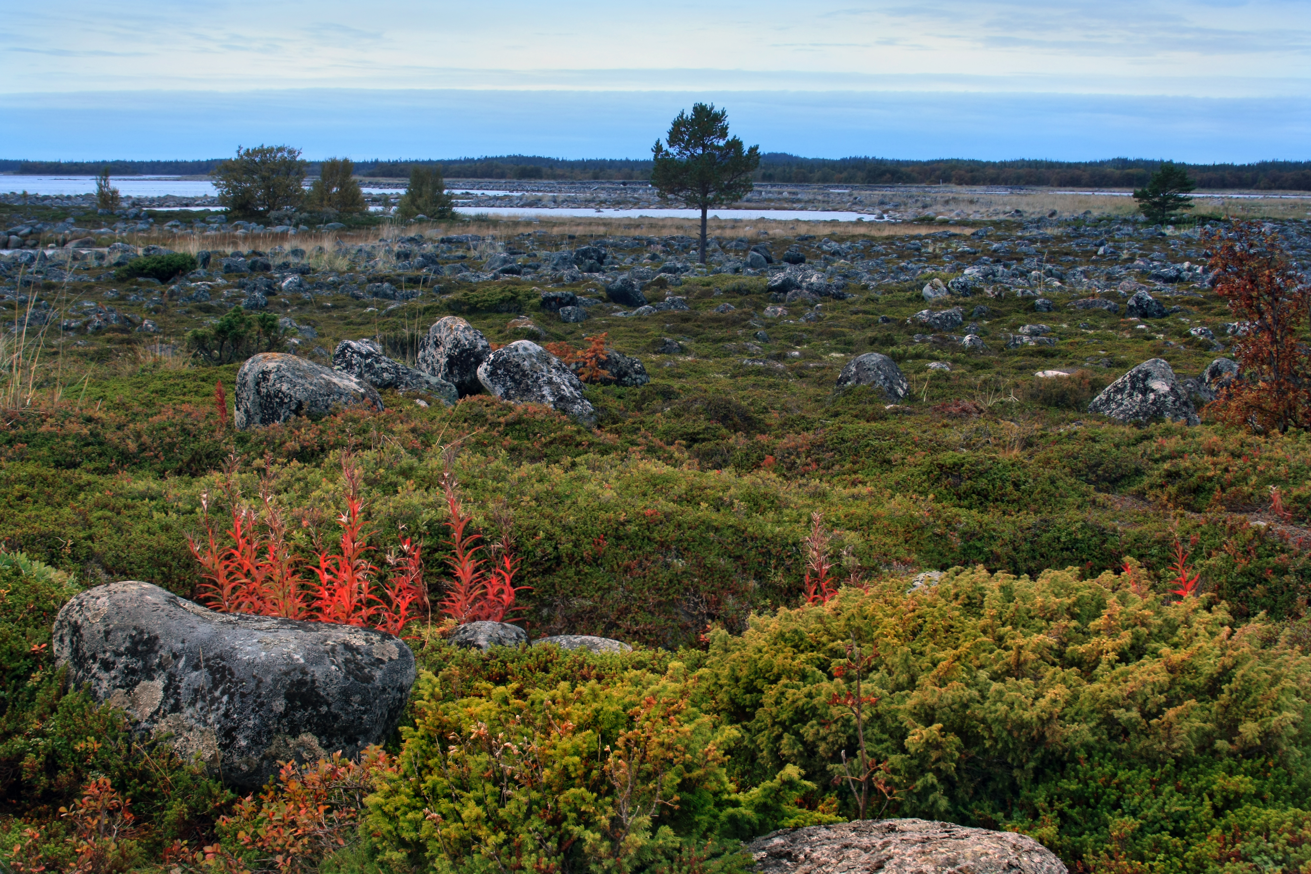 Bolshaya Muksalma Island